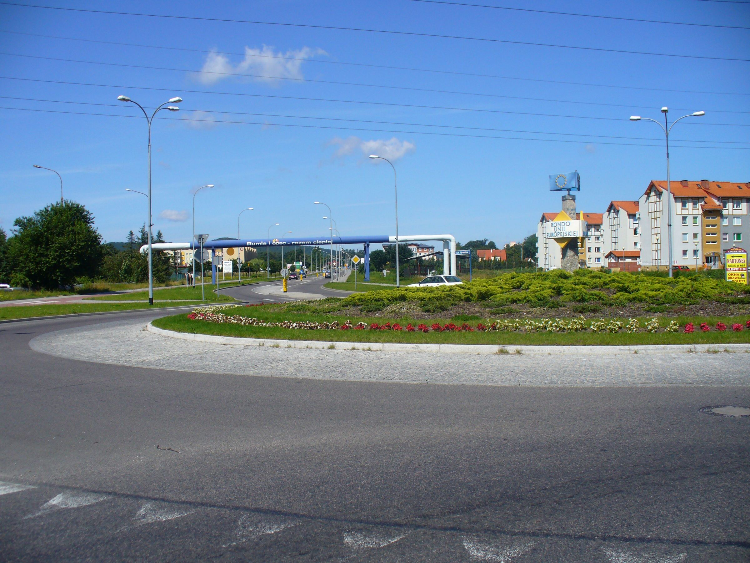 Rumia, Poland